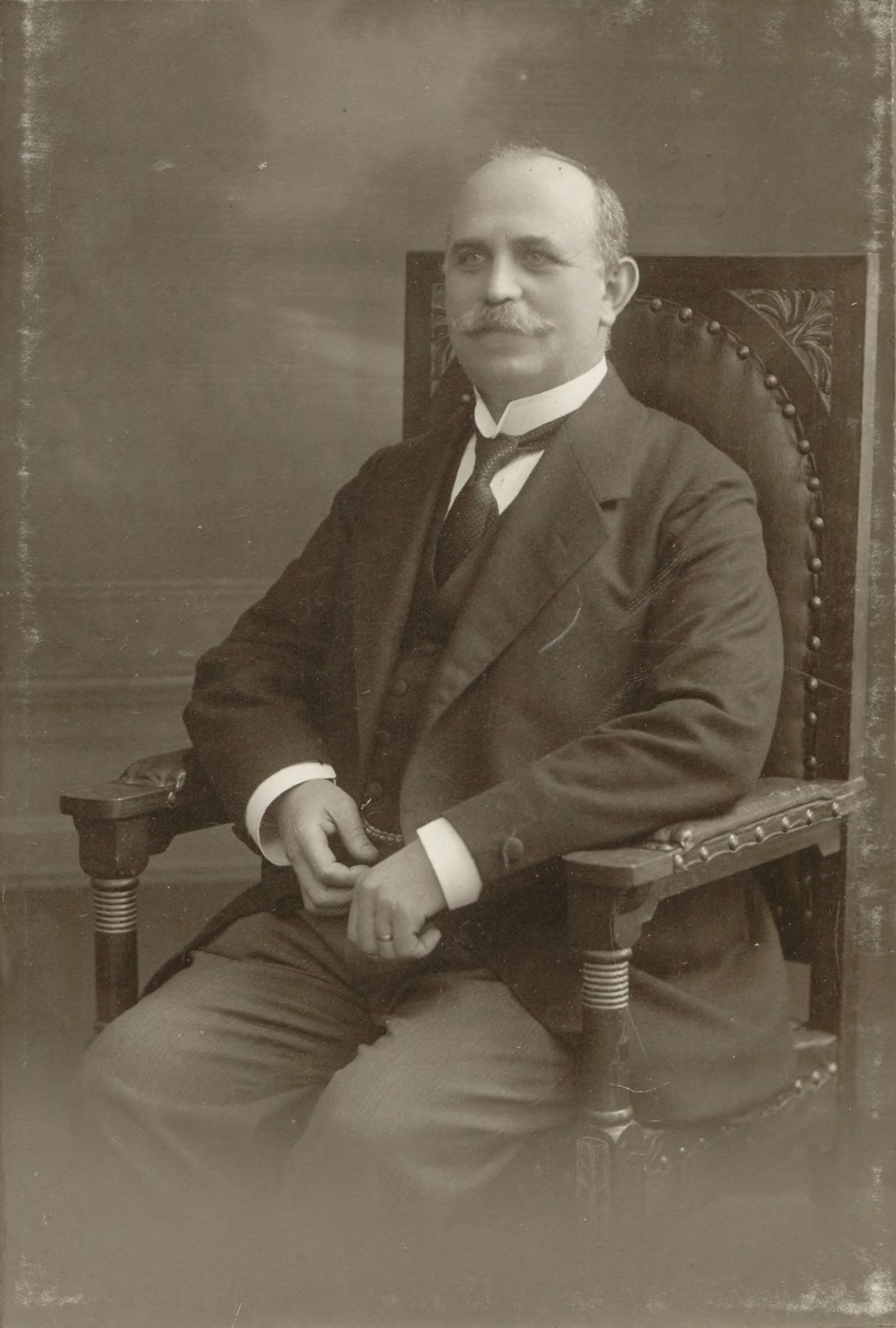 The photograph of Józef Gallus (1860–1945), Polish writer.